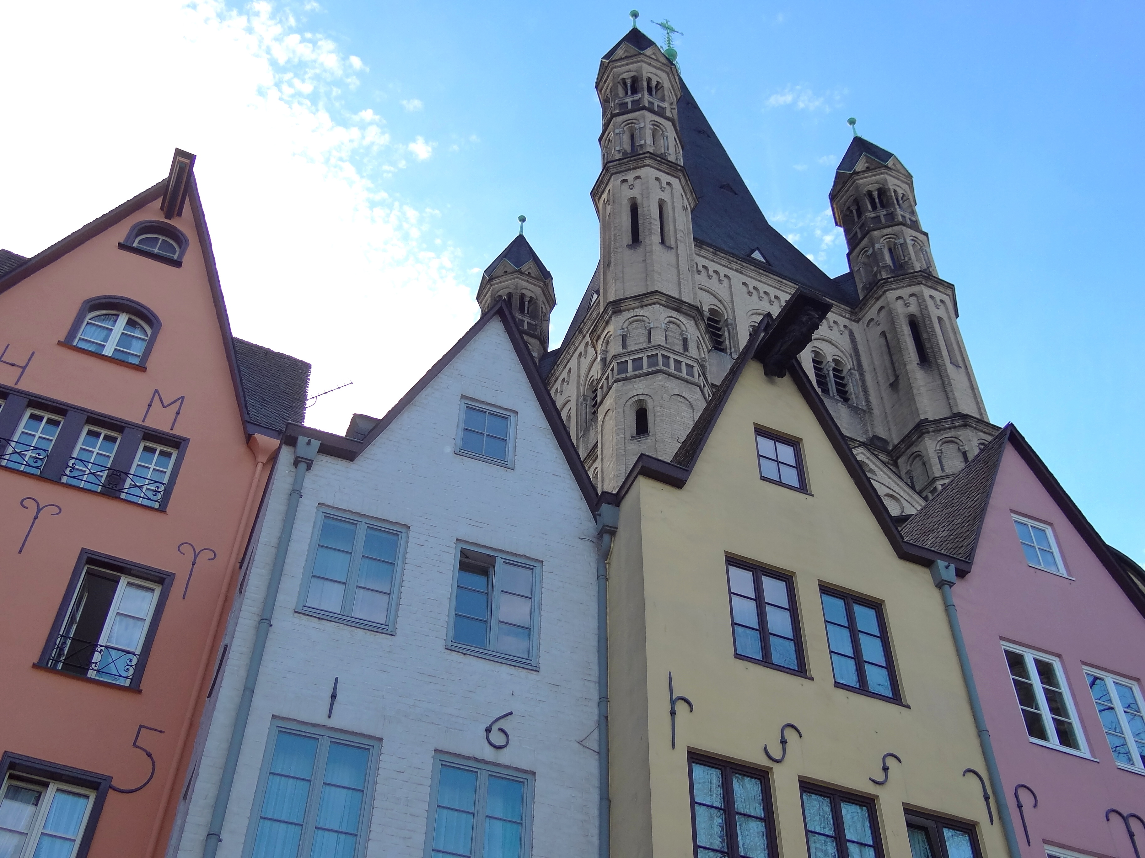 Altstadt (Old Town) Architectural Detail - Koln (Cologne) - Germany